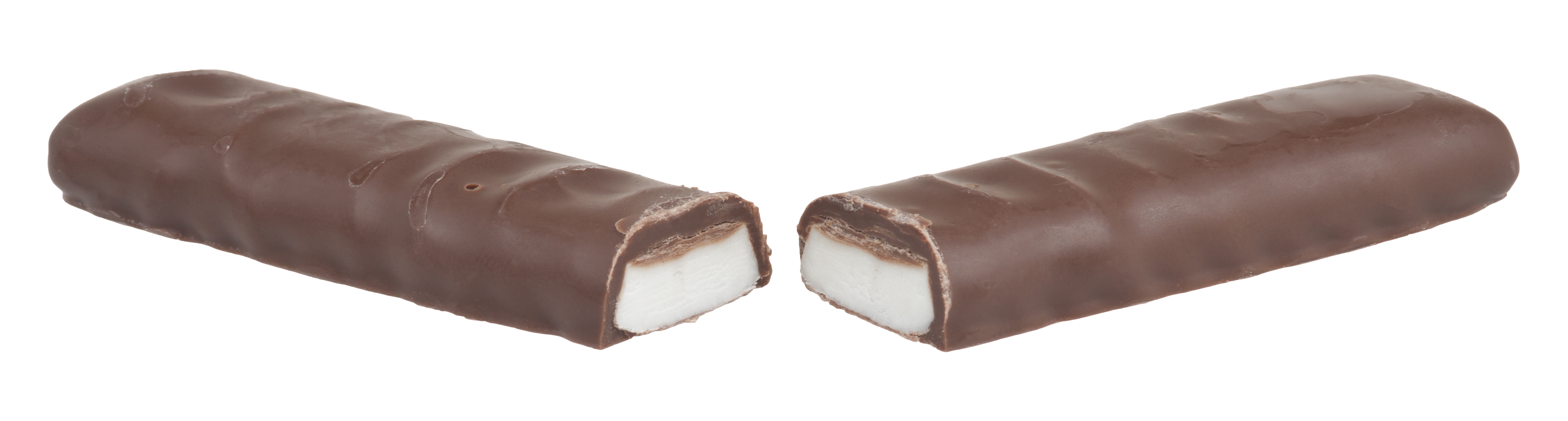 An Australian White Knight candy bar shown split in half.